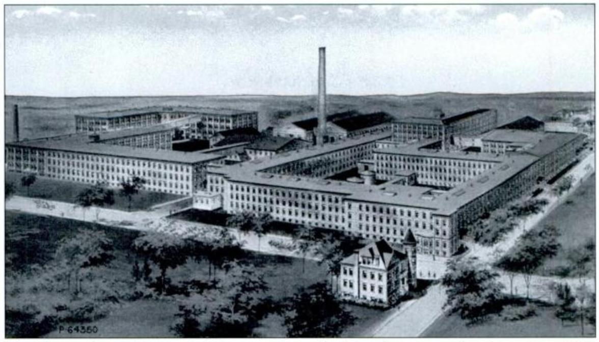 Artist's rendering of Seaside Institute, Bridgeport, Connecticut, in foreground against backdrop of Warner Brothers corset manufacturing factory.